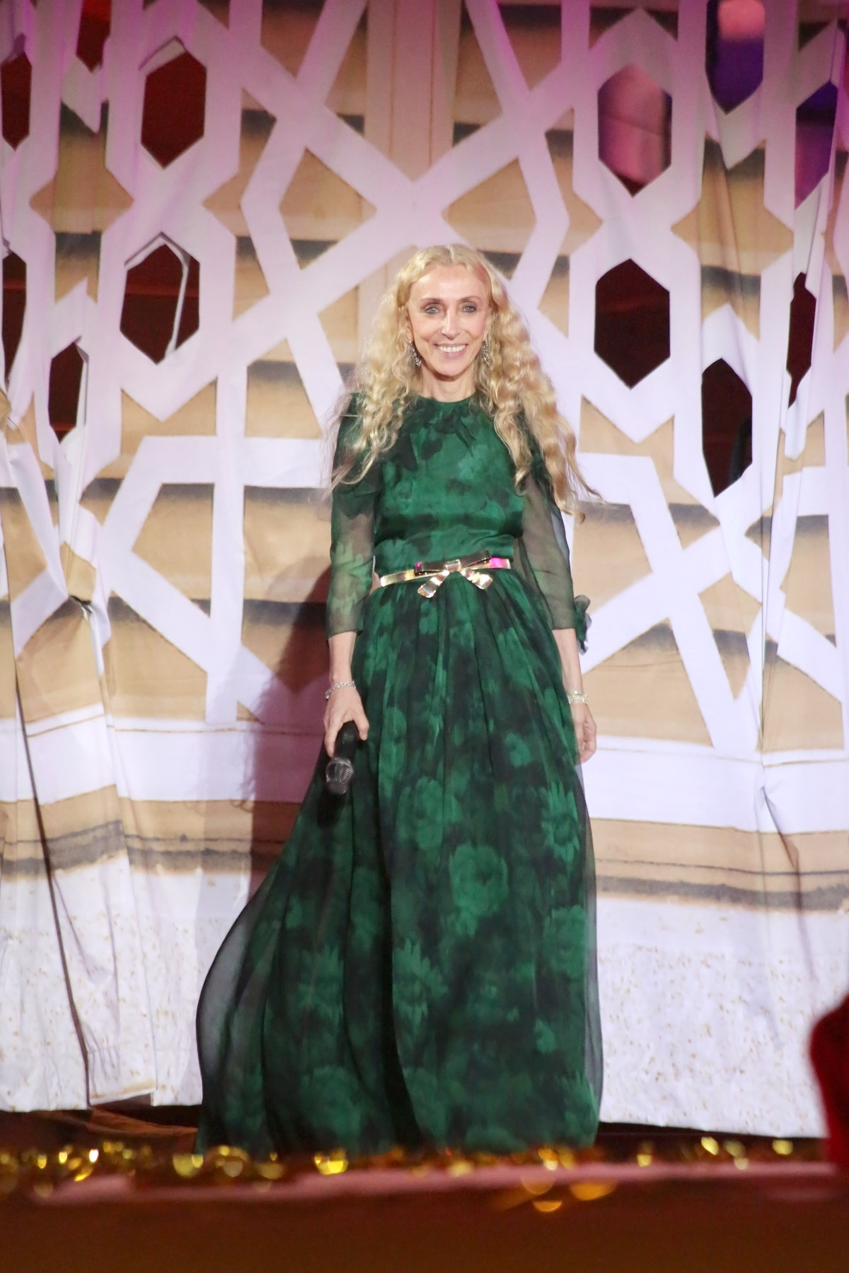 Franca Sozzani, opening show of Life Ball 2013 at the city hall of Vienna, Vienna, Austria.